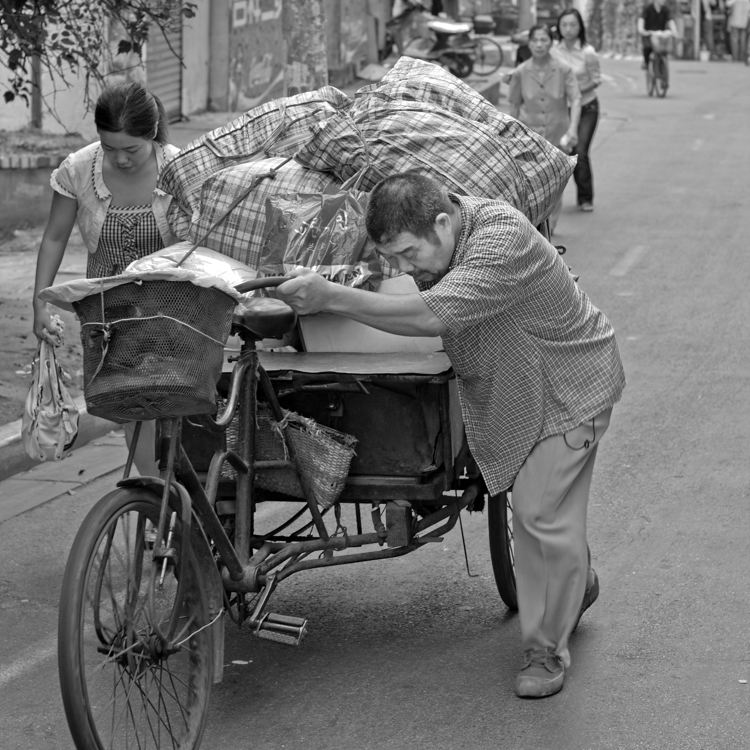 A man and a woman are pushing a loaded tri-cycle. Nanjing, China.